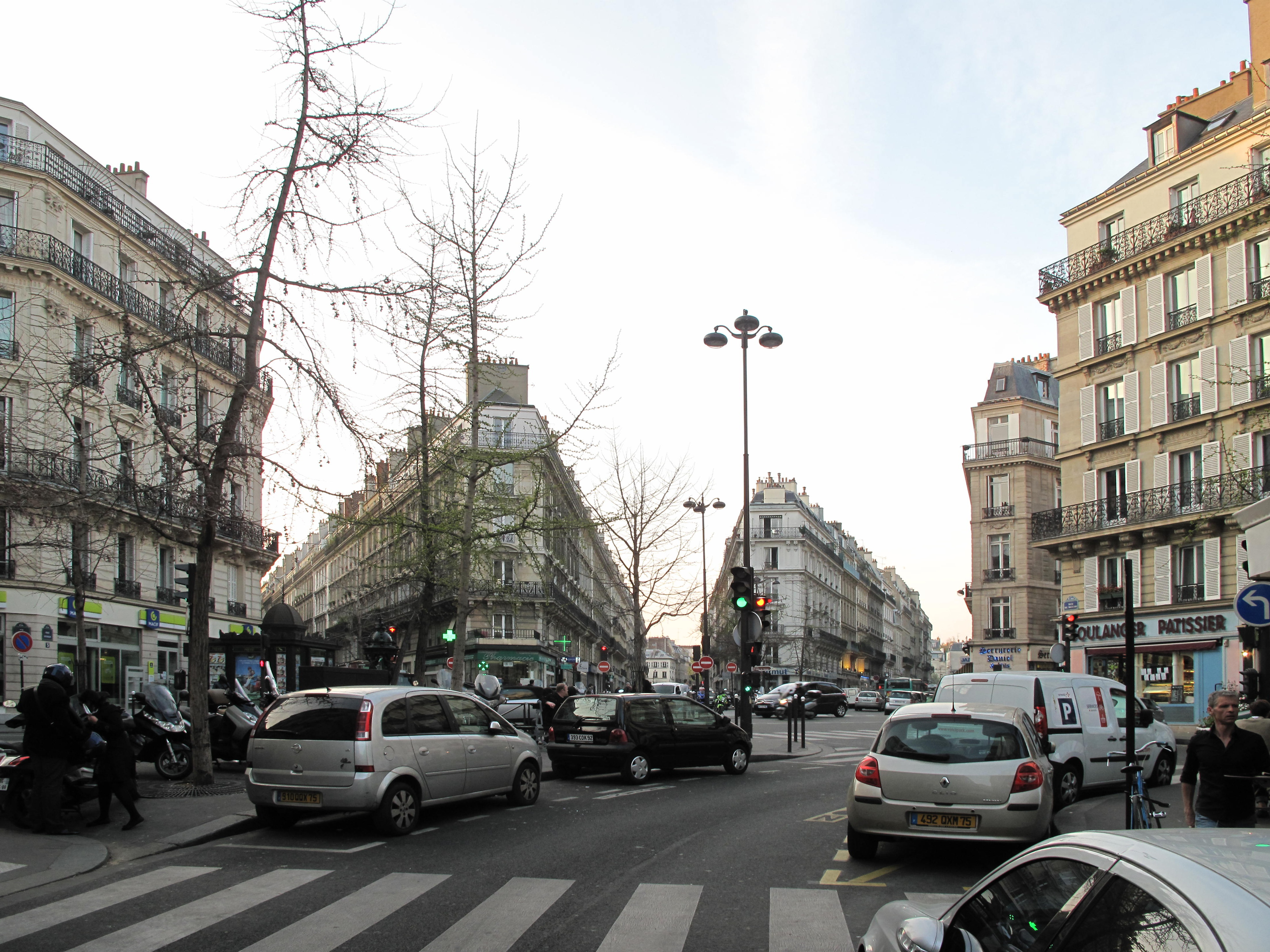 Place de Dublin from the rue de Moscou. In the place where Gustave Caillebotte painted "Street of Paris on rainy day". Paris, 8th arr.